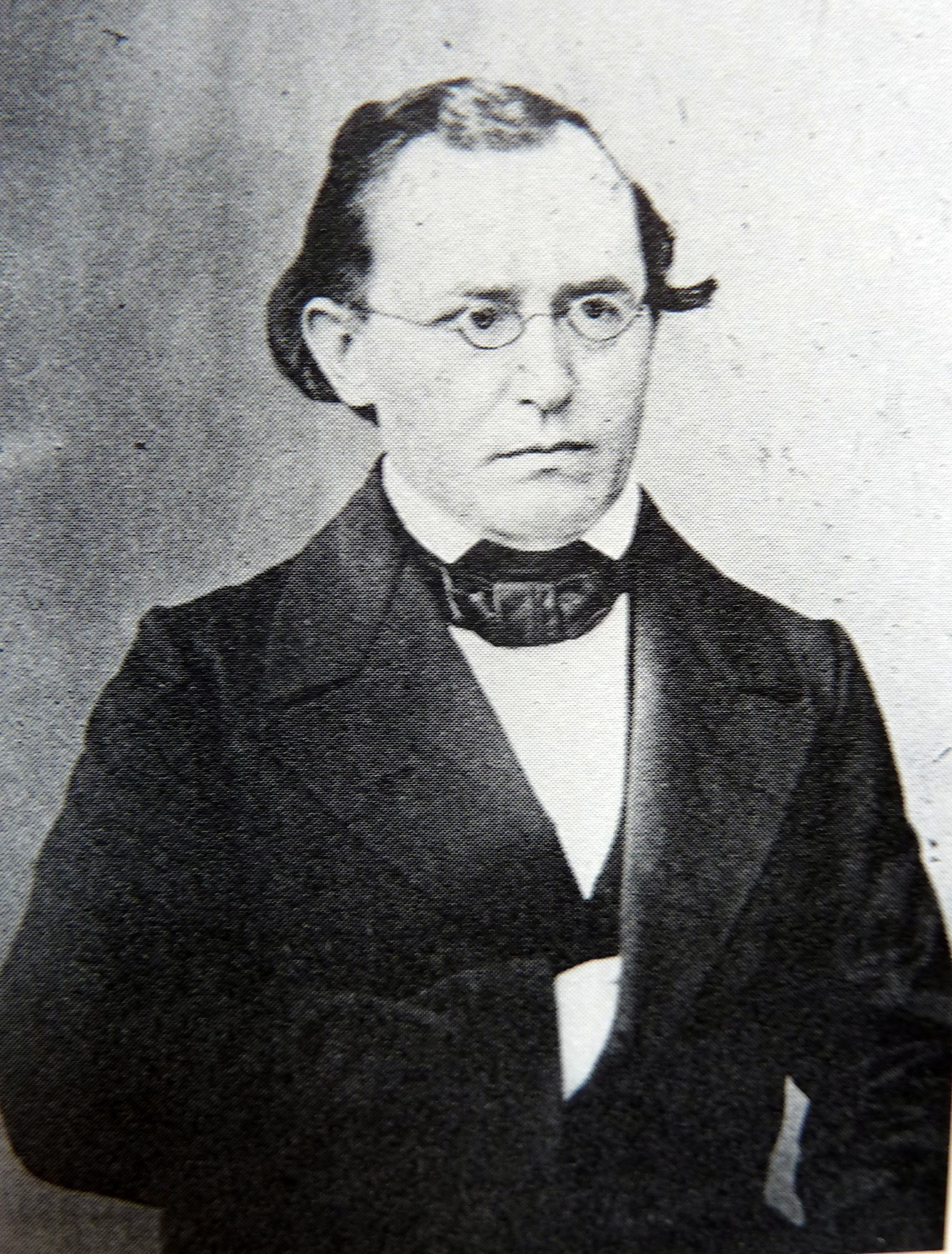 Franz Hermann Reinhold Frank (1827-1894), Foto by G. Gattineau, about 1860